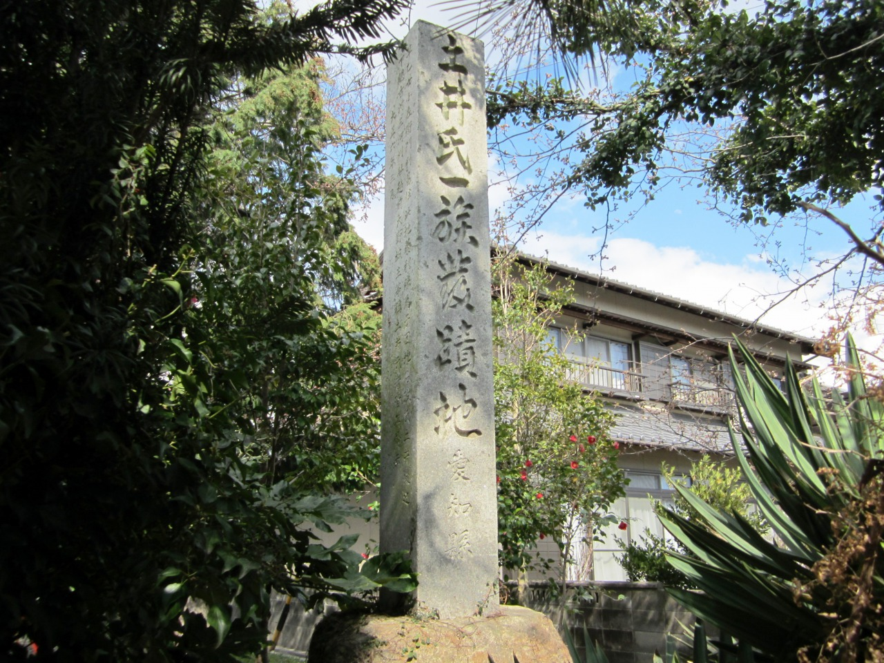 The home of the Doi clan in Okazaki, Aichi.